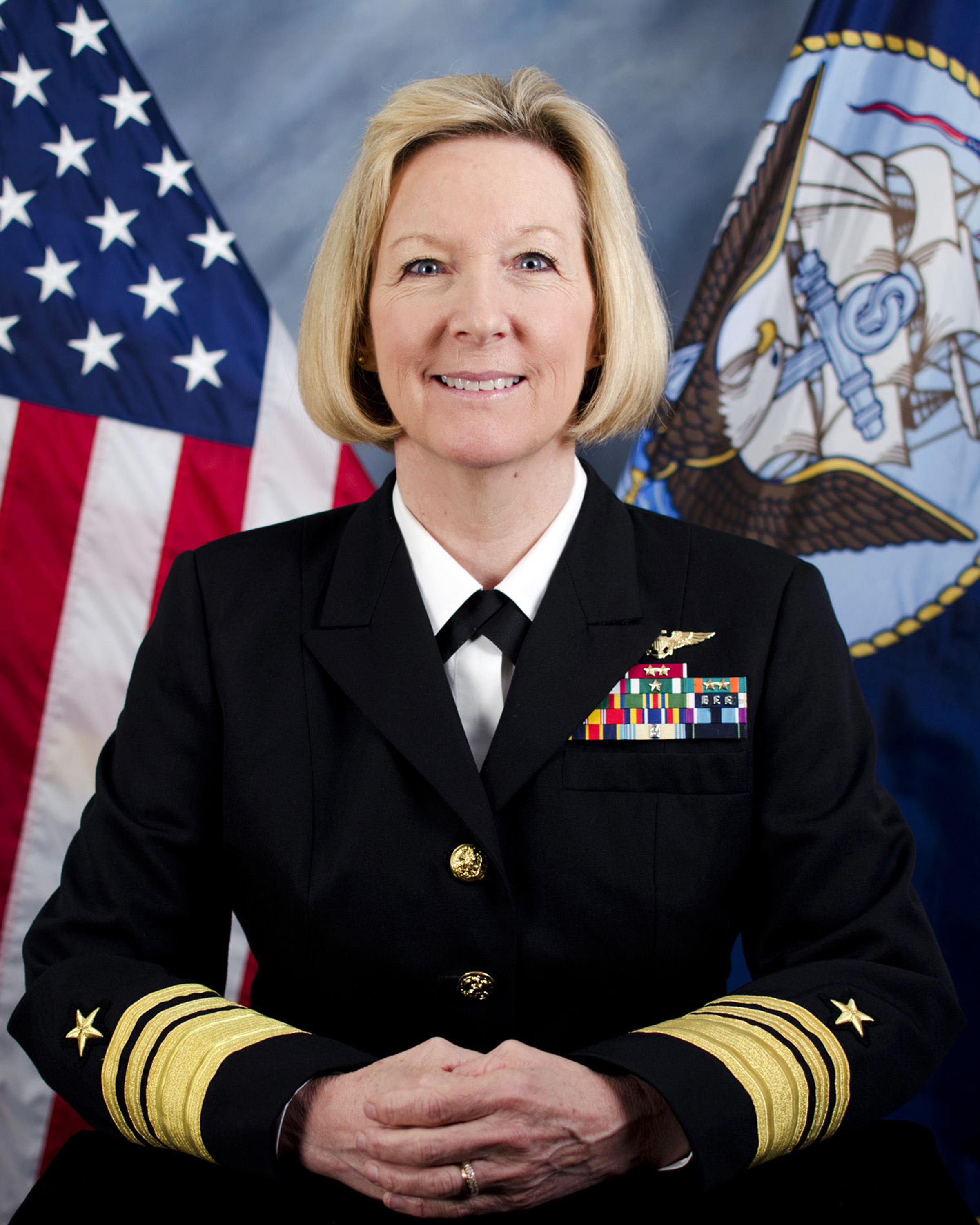 Official portrait of Vice Admiral Robin R. Braun, USN13th Chief of Naval ReserveCommander, Navy Reserve Forces Command